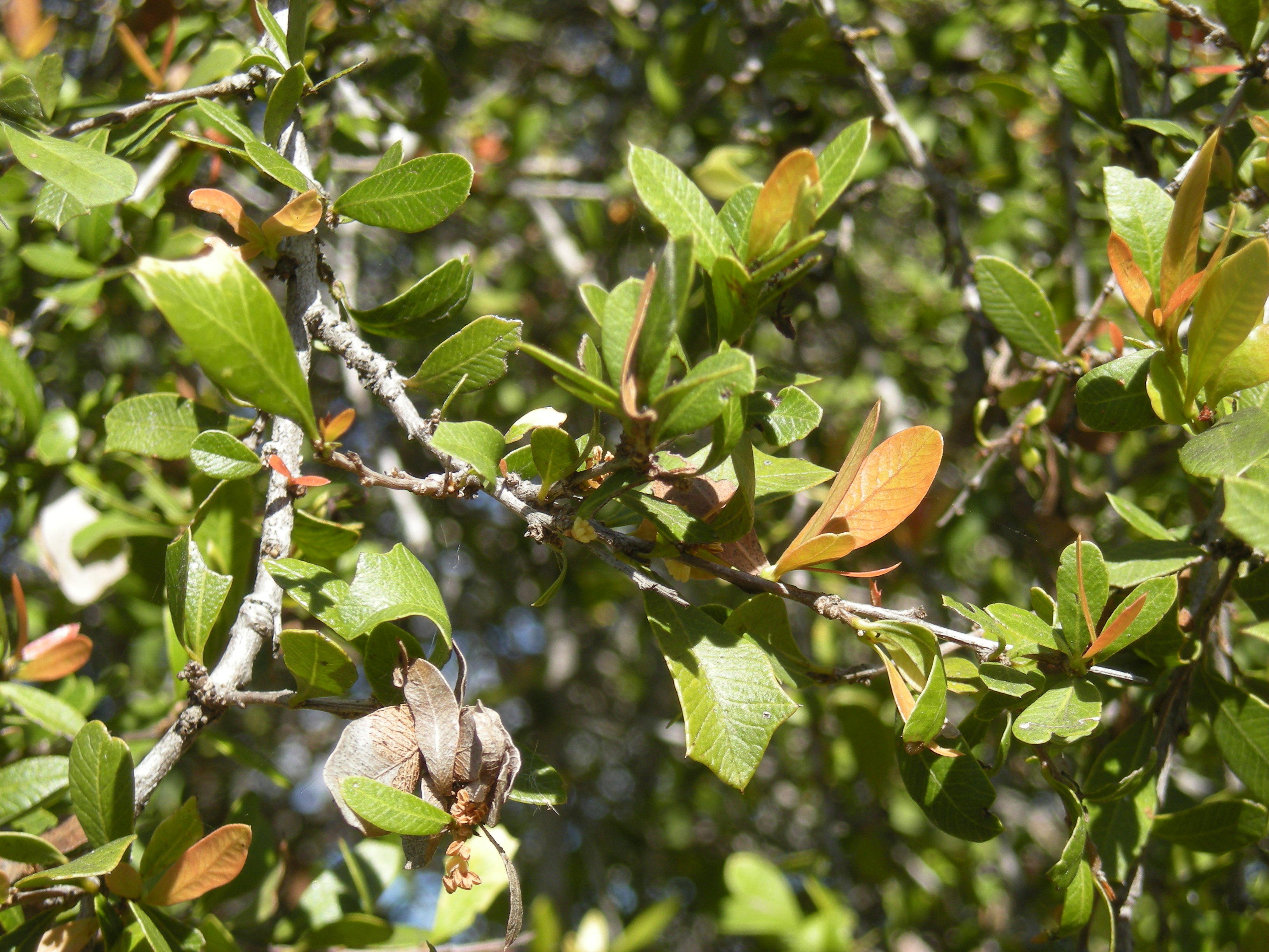 Alectryon diversifolius foliage illustrating new growth colouration and multiple leaf forms